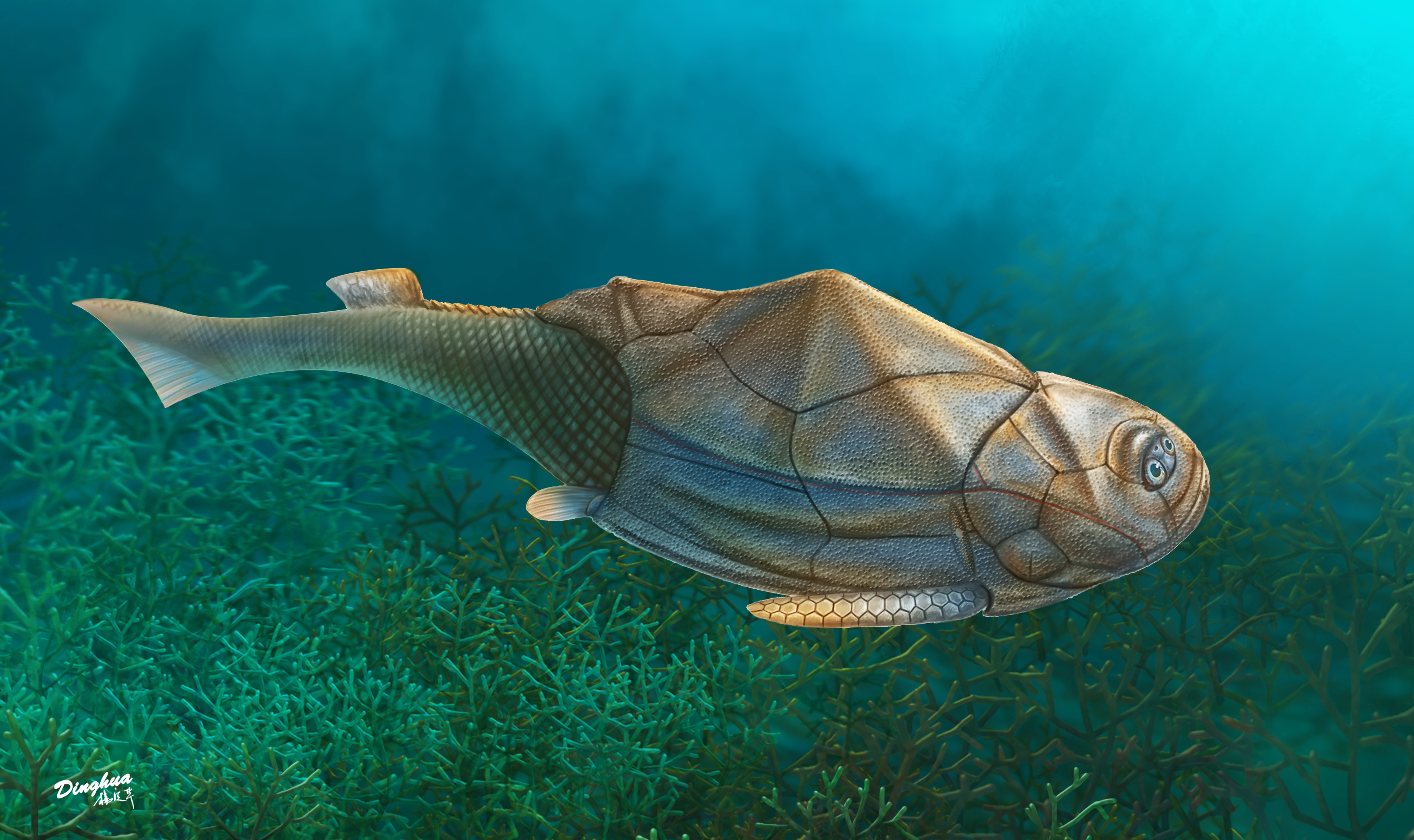 Results The lateroventral fossa of trunk shield and Chang’s apparatus are three-dimensionally restored in P. cuifengshanensis. The canal that is positioned just anterior to the internal cavity of Chang’s apparatus probably corresponds to the rostrocaudal canal of euantiarchs. The endocranial morphology of P. cuifengshanensis corroborates a general pattern for yunnanolepidoids with additional characters distinguishing them from sinolepids and euantiarchs, such as a developed cranio-spinal process, an elongated endolymphatic duct, and a long occipital portion. Discussion In light of new data from Phymolepis and Yunnanolepis, we summarized the morphology on the visceral surface of head shield in antiarchs, and formulated an additional 10 characters for the phylogenetic analysis. These cranial characters exhibit a high degree of morphological disparity between major subgroups of antiarchs, and highlight the endocranial character evolution in antiarchs.